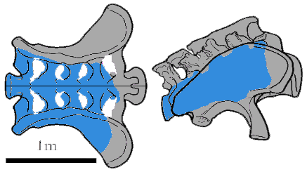 Restoration of the sacrum of "Brachiosaurus" nougaredi. Blue is known elements. Based on de Lapparent, A.F. (1960): "Les dinosauriens du "continental intercalaire" du Sahara central" ("The dinosaurs of the "continental intercalaire" of the central Sahara.") Mémoires de la Société Géologic de France, Nouvelle Série 88A vol.39(1–6):1–57.